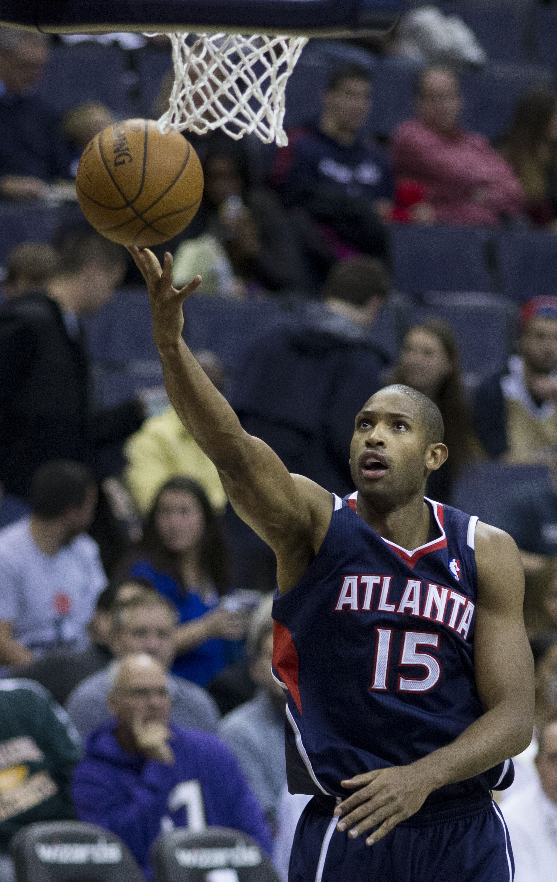 Hawks at Wizards 11/30/13